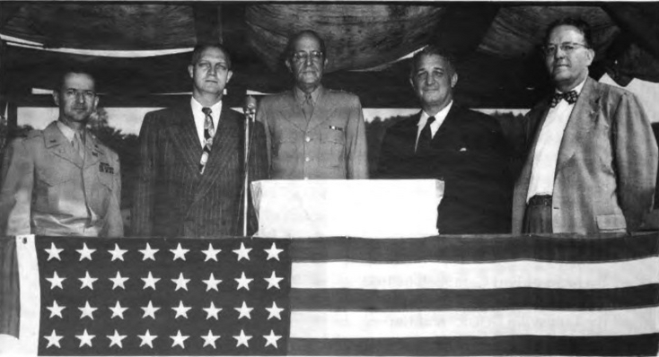 Major General Joseph Cowles Mehaffey, center, at the dedication of the Morgantown Lock and Dam on the Monongahela River in West Virginia, United States, in September 9, 1948.